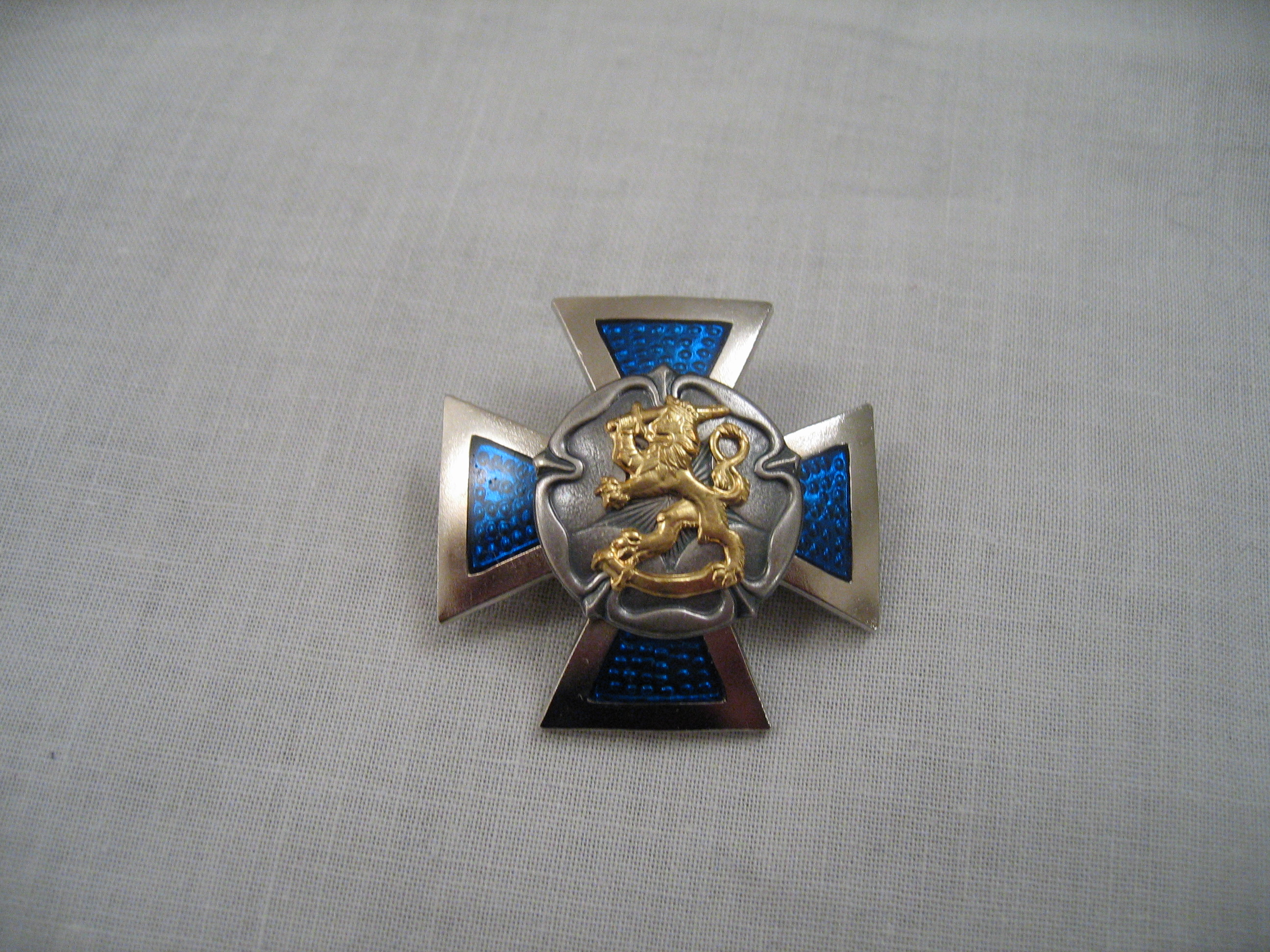 The badge of the Finnish reserve officer course, this model in use since 1948. The badge is worn on the middle stitch of the left breast pocket in a military uniform. The badge features a silver heraldic rose on a cross with the form of the Cross of St. George, topped by a golden Lion of Finland.